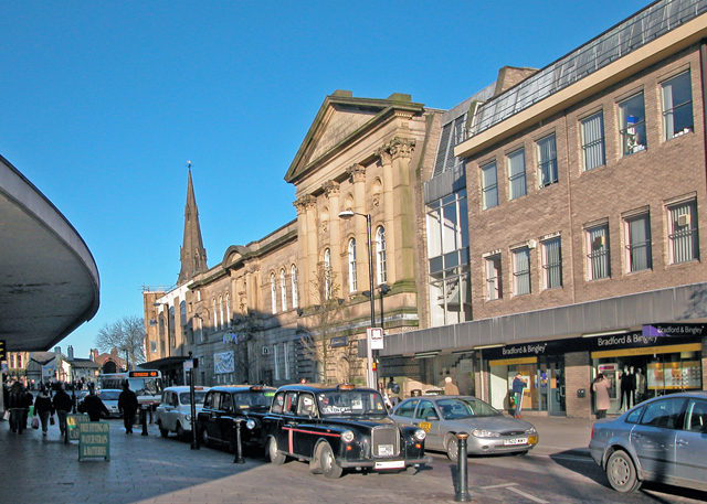 Market Street The splendid building in the centre of the picture was formerly the Derby Hall, named in honour of a local landowner, the Earl of Derby. Having survived the re-building of the rest of the street, it is now the Met Arts Centre.